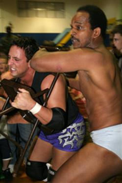 Norman Smiley prepares to slam Billy Kidman into a turnbuckle during an International Championship Wrestling hardcore match April 17 at Iron Works Gym.